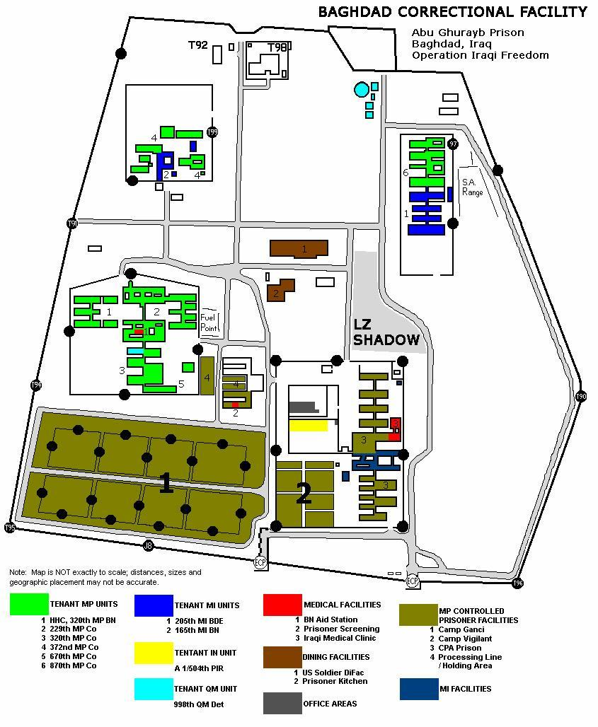 Abu Ghraib prison (Abu Gharayb) map associated with the 4 Sep 2003 SECRET satellite imagery of Camp Ganci. Camp Ganci and camp Vigilant are clearly marked.